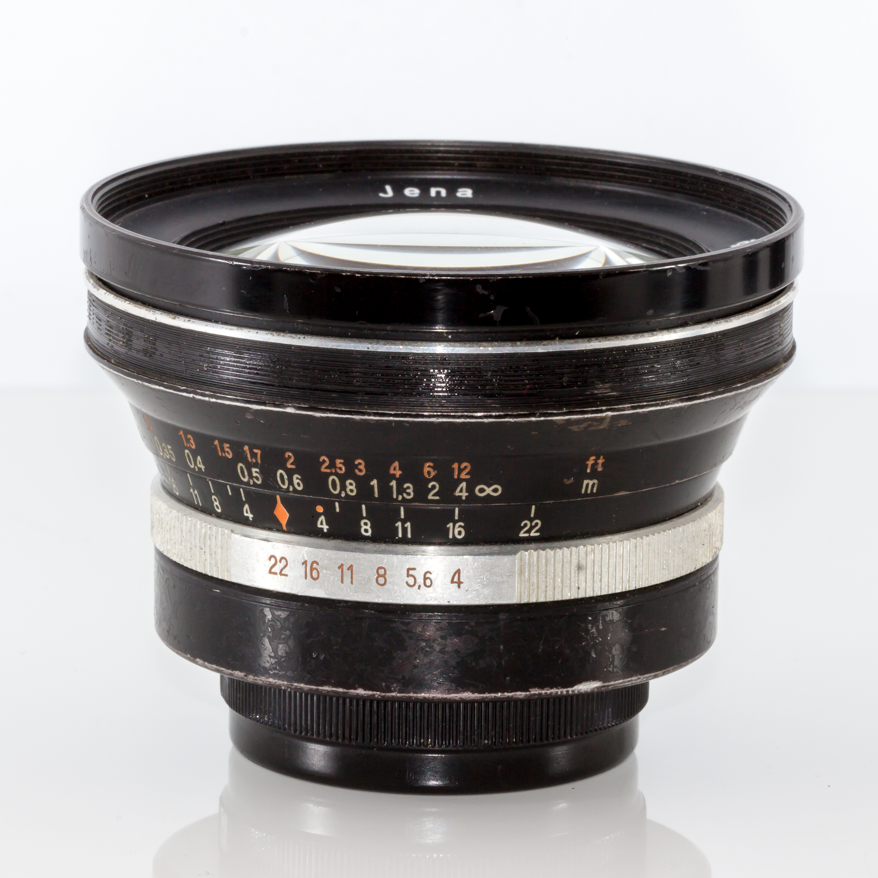 Flektogon 4 20 lens